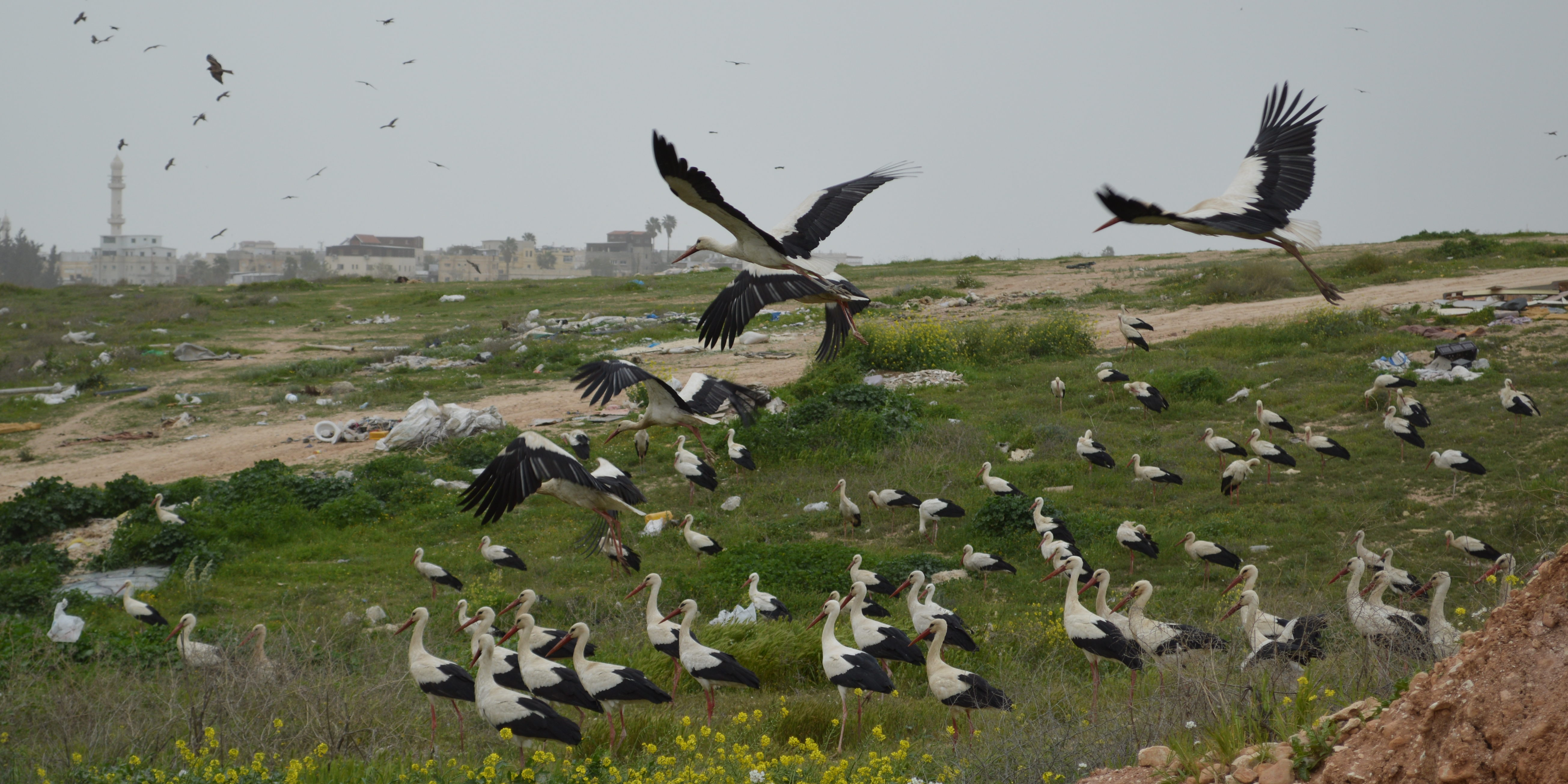 Hundreds of migratory storks resting in Rahat (Negev, Israel).